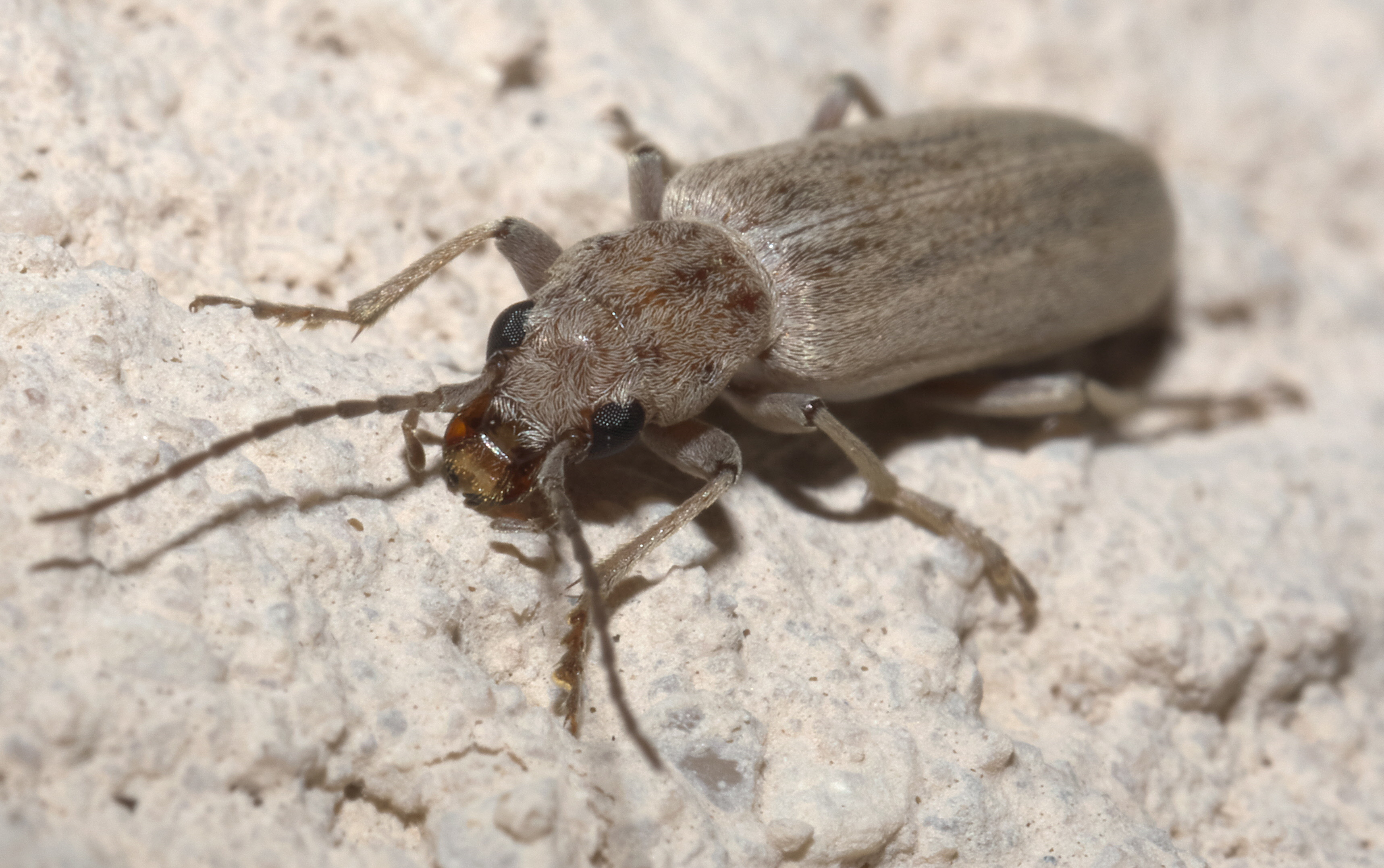 Oxacis pallida, Family: False Blister Beetles, ID Confidence: 98